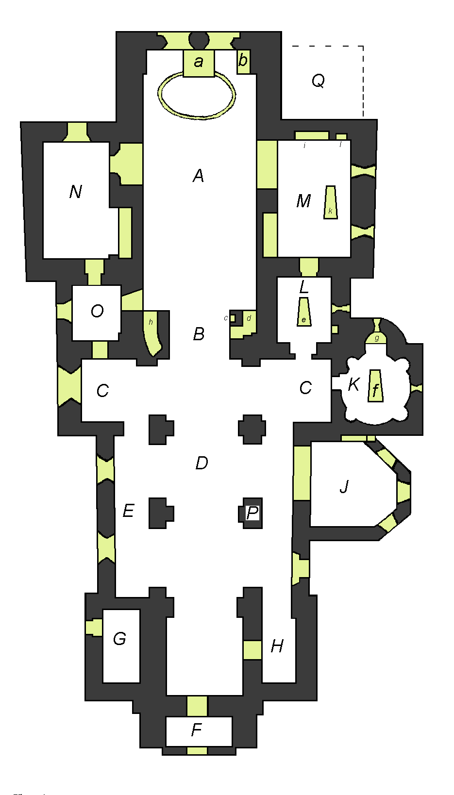 Church plan of Vreta monastery church